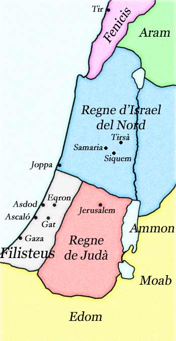 Map of Israel and Judah kingdoms (around 900 BC)